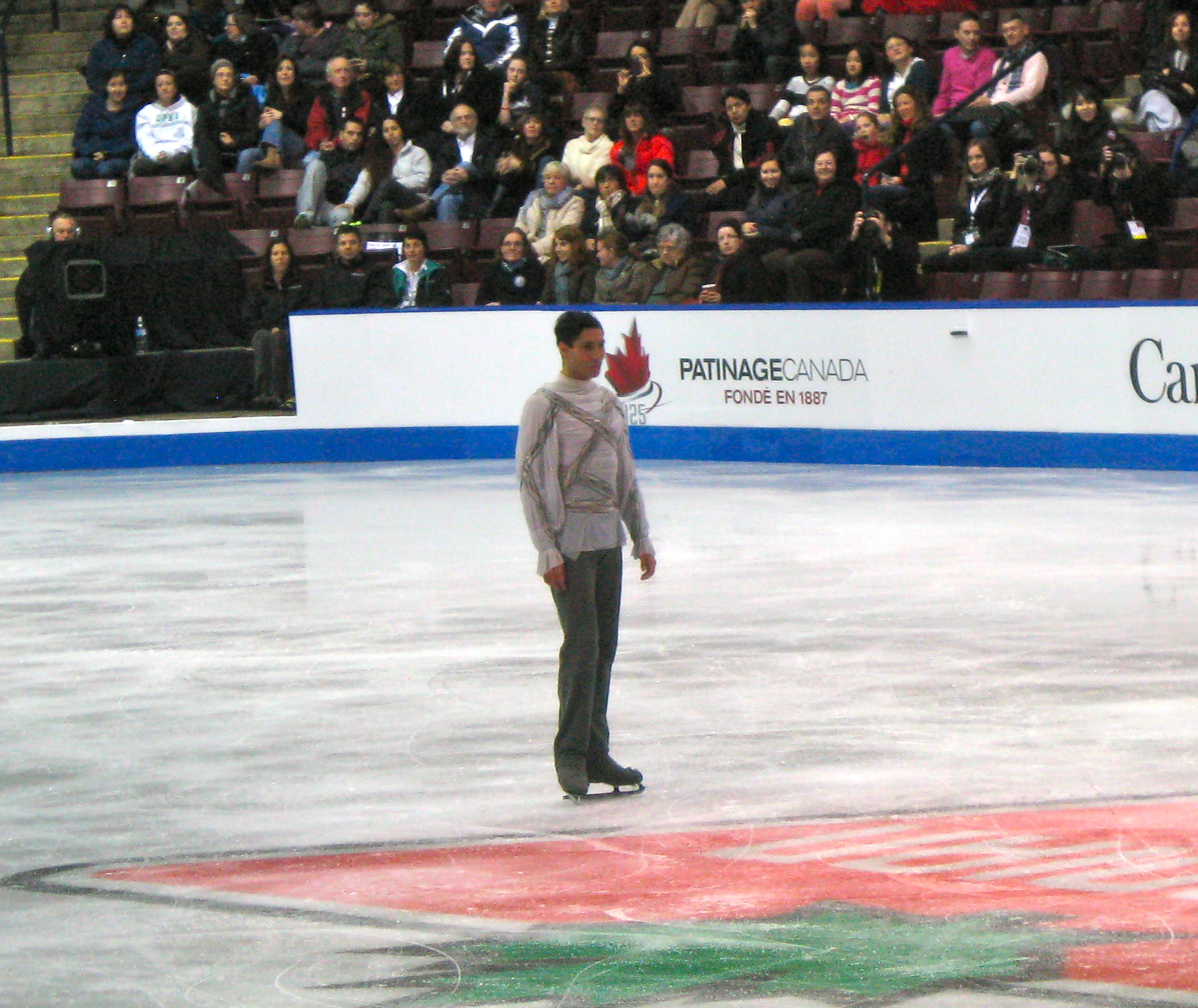 Canadian figure skater Emanuel Sandhu performing his short program during the 2013 Canadian Figure Skating Championships at the Hershey Centre in Mississauga, Ontario